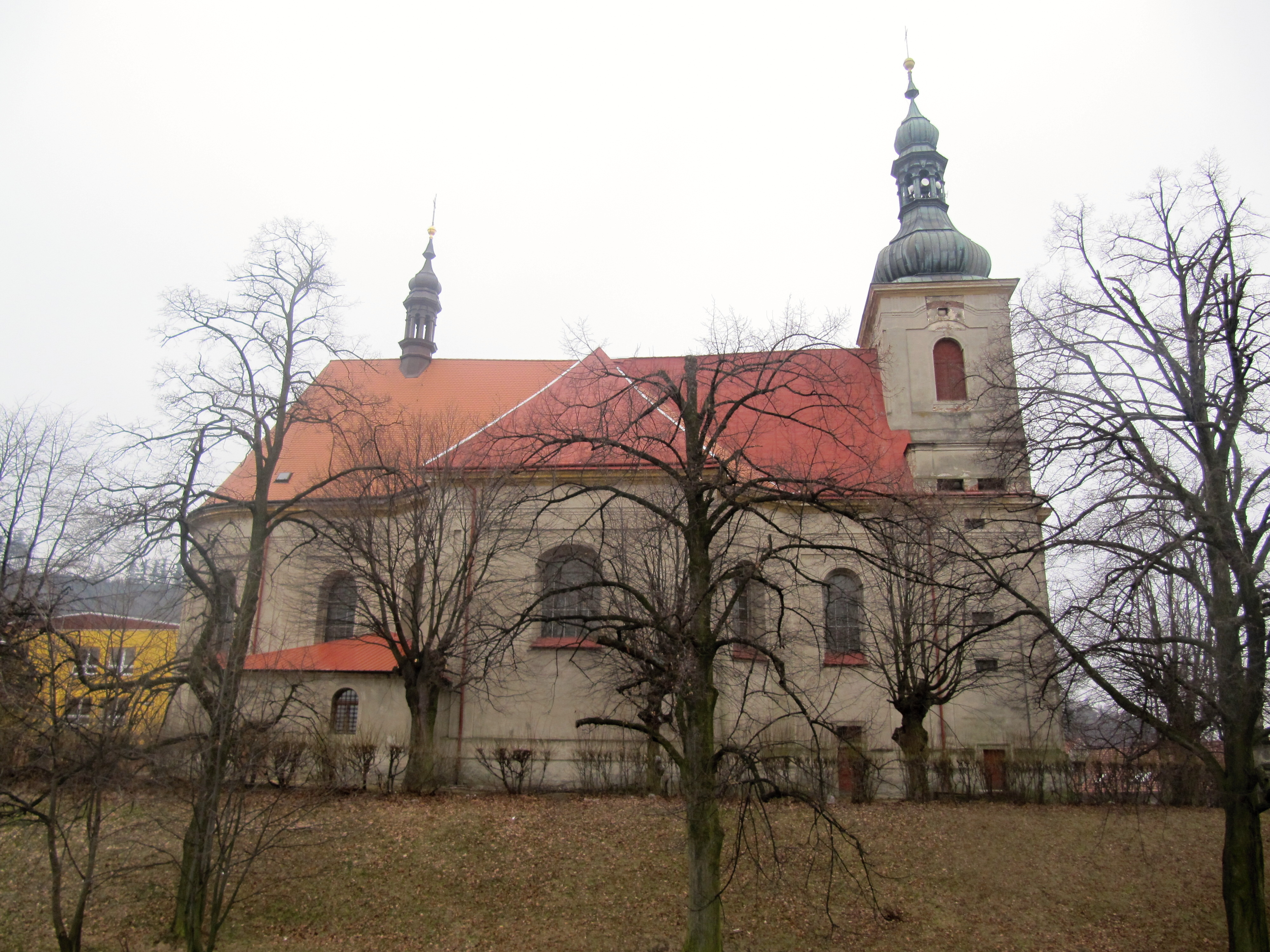 Střílky in Kroměříž District, Czech Republic. Curch, side view.